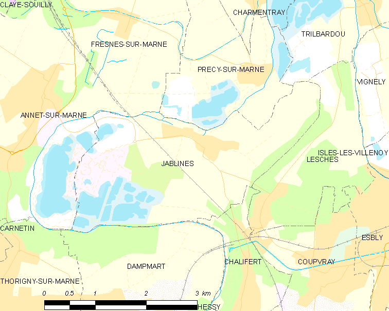 Map of French municipality Jablines